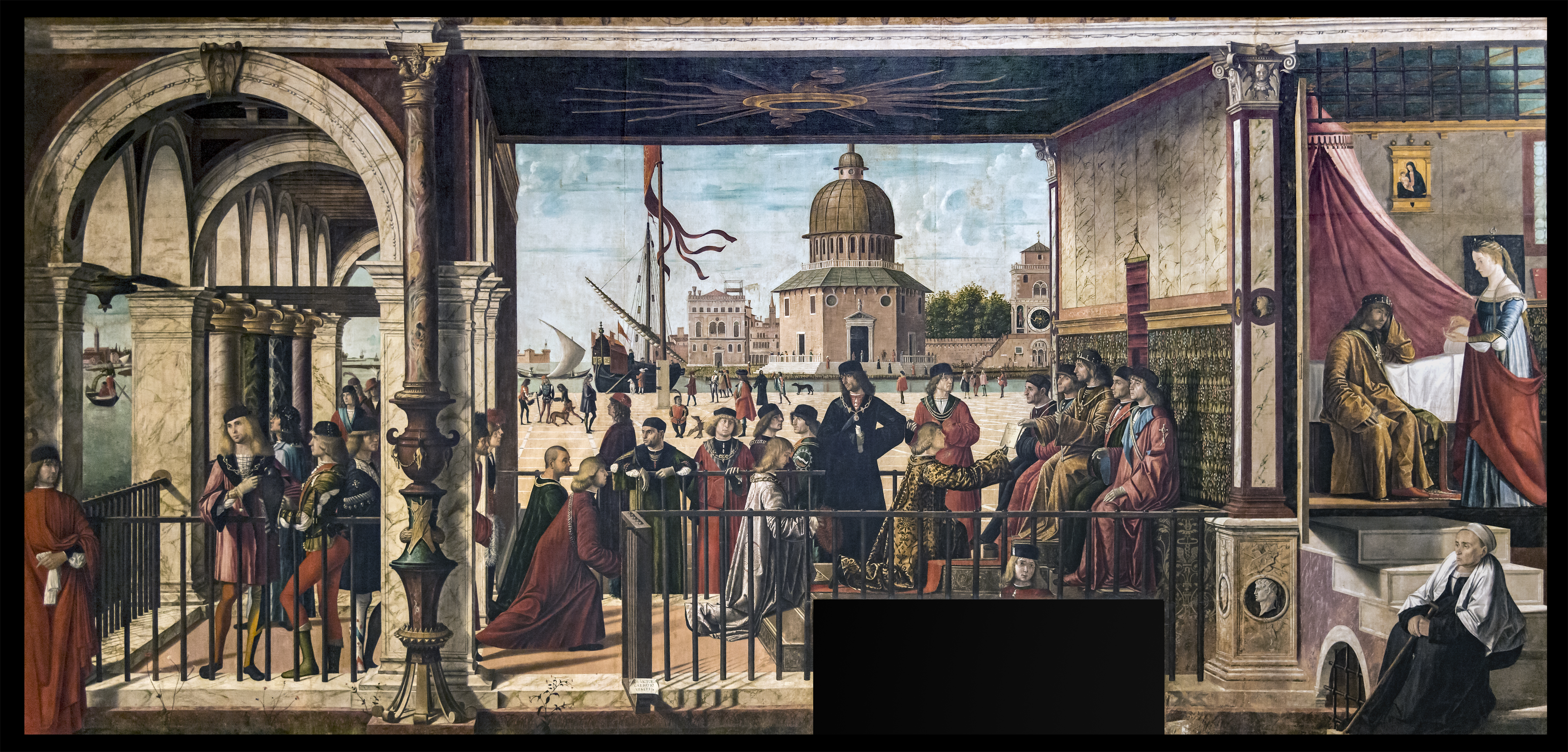 subject is the healing of a man possessed performed by Francesco Querini, the Patriarch of Grado, through the intercession of the relic of the Holy Cross in his palace at the Rialto, in the upper left part of the picture and takes place in the loggia of the palace. The bridge depicted is the one built in 1458.